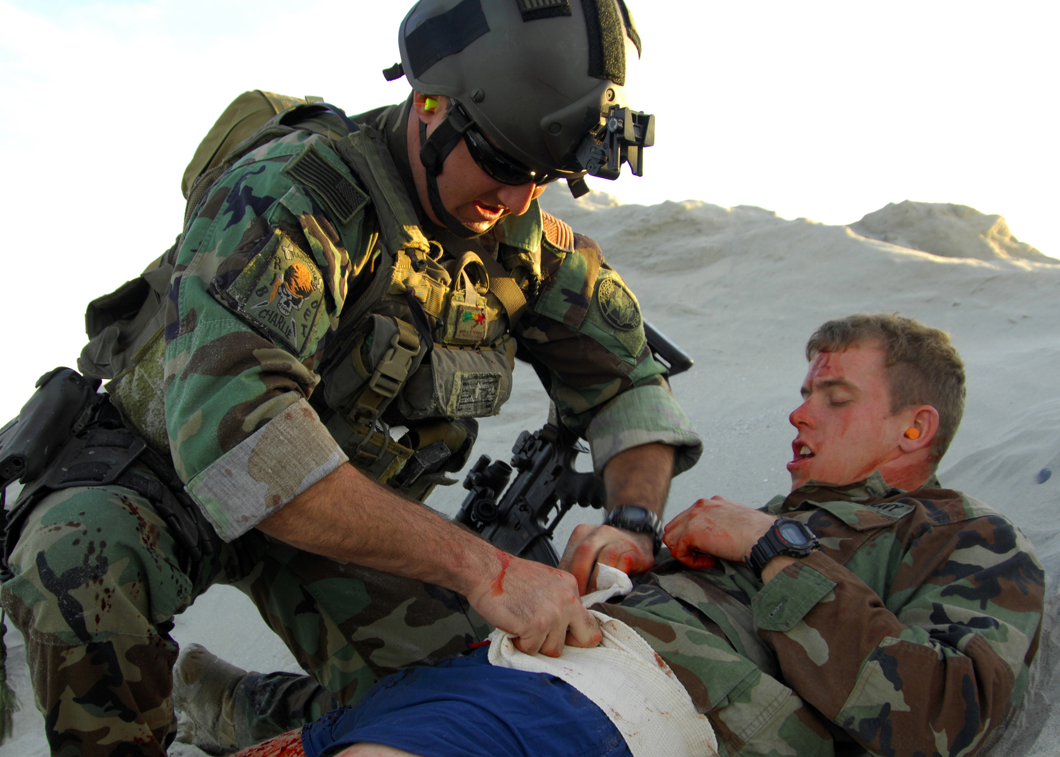 CORONADO, Calif. (Dec. 10, 2008) A Special Warfare Combatant-craft Crewman (SWCC) from Special Boat Team 12 treats an injured teammate during a casualty assistance and evacuation scenario at Naval Special Warfare Center. The scenario covered basic first aid and advanced life-saving skills commonly used to treat combat-related injuries, as part of unit-level training. SWCCs operate and maintain the Navy's inventory of state-of-the-art, high-performance boats and ships used to support SEALs on special operations missions worldwide. (U.S. Navy photo by Mass Communication Specialist 2nd Class Michelle Kapica/Released)